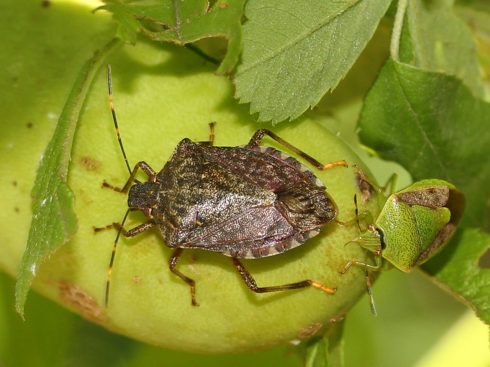 Halyomorpha halys and Plautia stali on young fruits of Chocolate Vine (Akebia quinata (Houtt.) Decne. ), in Mount Ibuki, Maibara, Shiga prefecture, Japan.